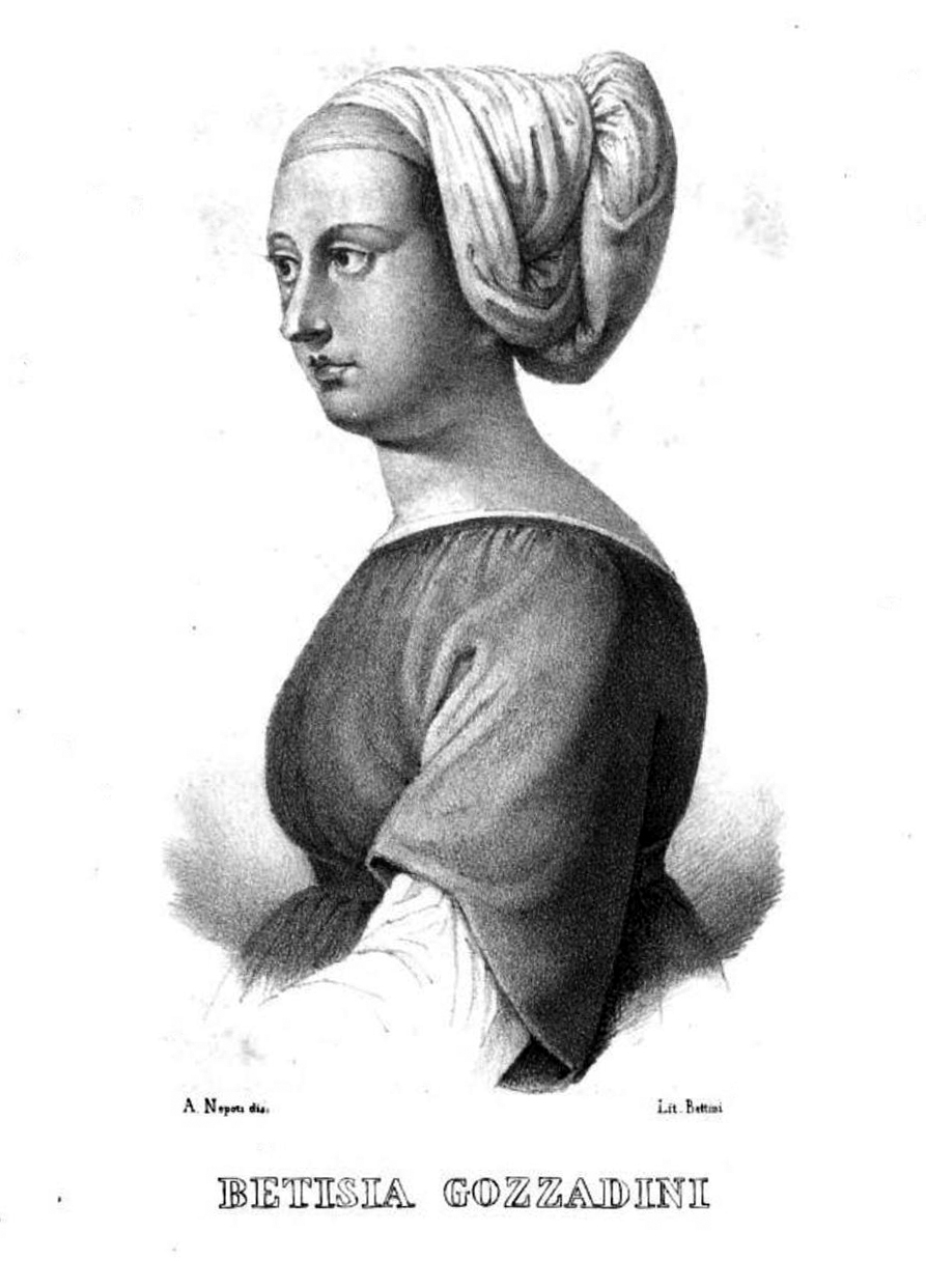 Lithograph portrait of Bettisia Gozzadini by A. Nepoti from: Carolina Bonafede, Cenni biografici e ritratti d'insigni donne bolognesi. Bologna: Sassi, 1845.